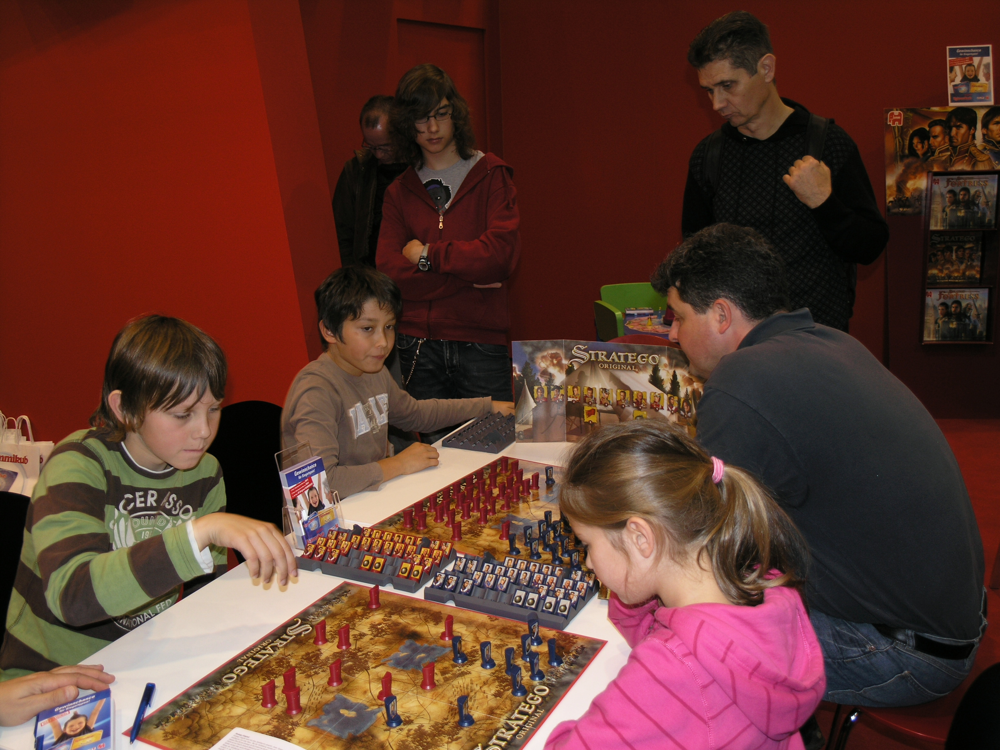 Personality rights warning Although this work is freely licensed or in the public domain, the person(s) shown may have rights that legally restrict certain re-uses unless those depicted consent to such uses. In these cases, a model release or other evidence of consent could protect you from infringement claims.